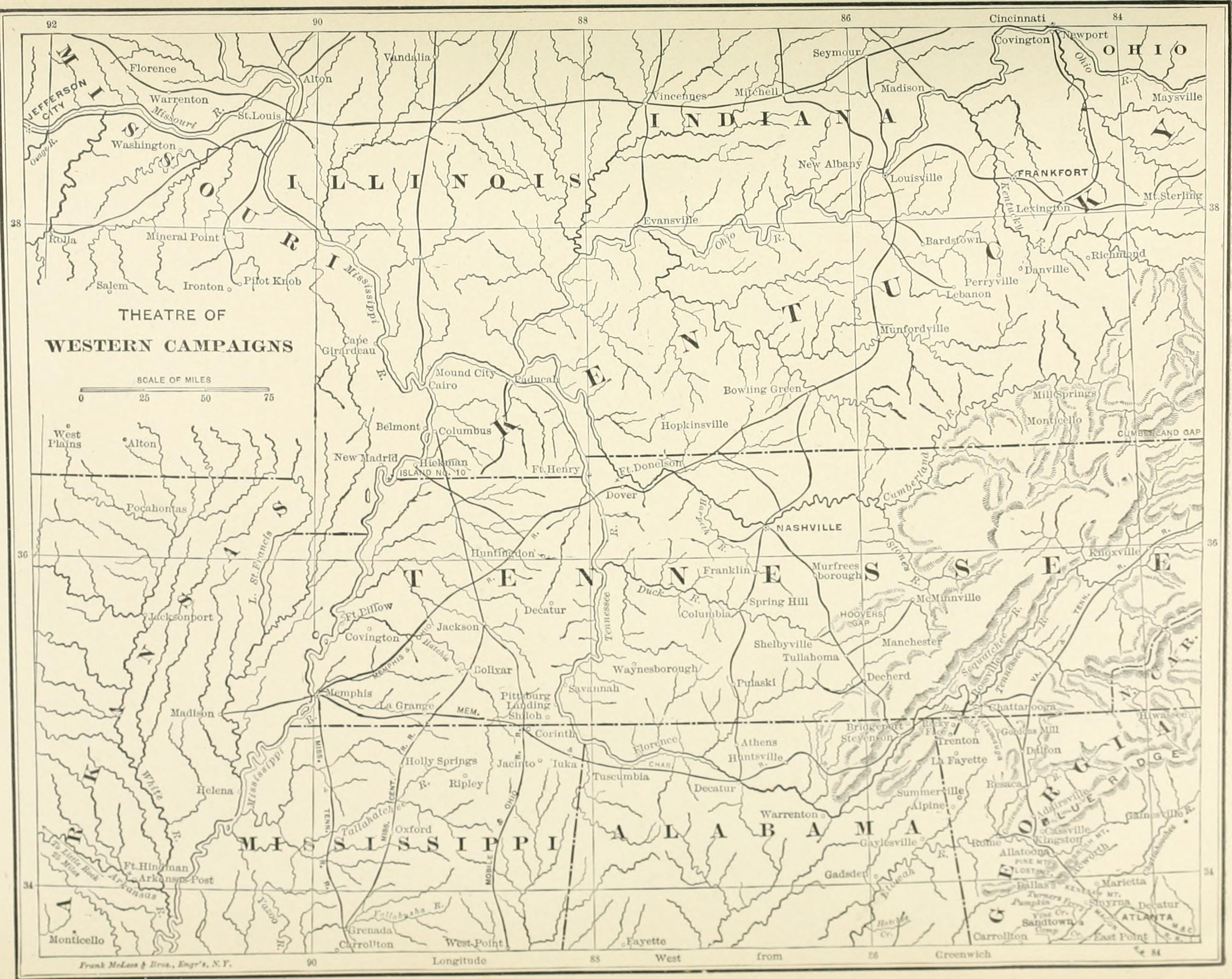 Title: The photographic history of the Civil War : thousands of scenes photographed 1861-65, with text by many special authorities Year: 1911 (1910s) Authors: Miller, Francis Trevelyan, 1877-1959 Lanier, Robert S. (Robert Sampson), 1880- Subjects: United States -- History Civil War, 1861-1865 Pictorial works United States -- History Civil War, 1861-1865 Publisher: New York : Review of Reviews Co. Text Appearing Before Image: d and missing, 97 wounded. Con-fed., 16 killed, 88 wounded, 10 missing. 22 and 24.— Monettes Ferry, Cane River, andCloutersville, La. Union, Portion ofThirteenth, Seventeenth, and NineteenthCorps; Confed., Gen. Richard Taylorscommand. Losses: Union (estimate),350 killed and wounded; Confed., 400killed and wounded. 25.—:Marks Mills, Ark. Union, 36th Iowa,77th Ohio, 43d 111., 1st Ind. Cav., 7thMo. Cav., Battery E 2d Mo. Light Ar-til.; Confed., Troops of Gen. KirbySmiths command. Losses: Union, 100killed, 250 wounded, 1100 captured;Confed., 41 killed, 108 wounded, 44missing. 26.—More Creek, Ark. Union, 33d and 40tliIowa, 5th Kan., 2d and 4th Mo., 1stIowa Cav.; Confed., Troops of Gen.Kirby Smiths command. Losses:Union, 5 killed, 14 wounded. 30.—Jenkins Ferry, Saline River, Ark.Union, 3d Division of SeventeenthCorps; Confed., Texas, ^lissouri, andArkansas troops under Gens. KirbySmith and Sterling Price. Losses:Union, 200 killed, 955 wounded; Con-fed., 86 killed, 356 wounded. (352) Text Appearing After Image: Its s^